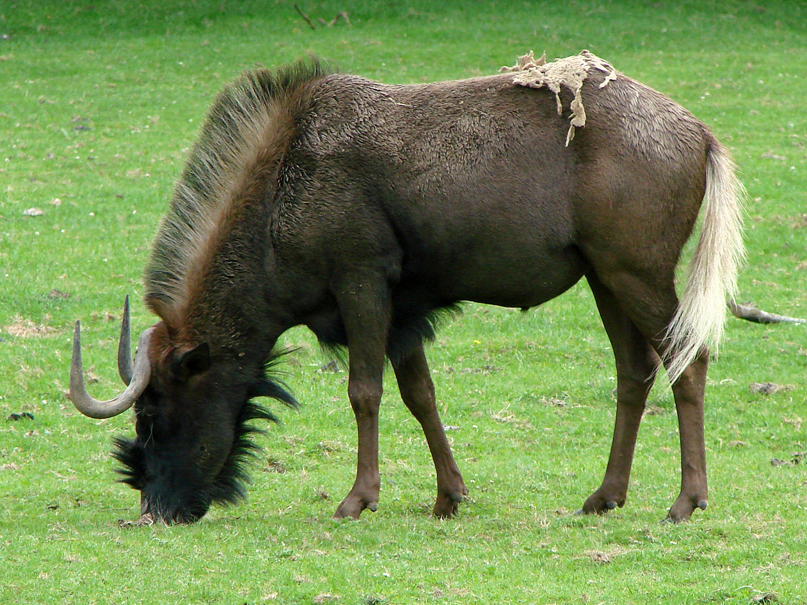 White-tailed gnu or black wildebeest (Connochaetes gnou) in Thoiry zoo.